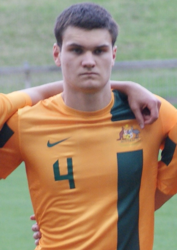 Young Socceroos vs New Zealand